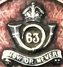 63rd Palamcottah Light Infantry, St. Mary's Church, Madras